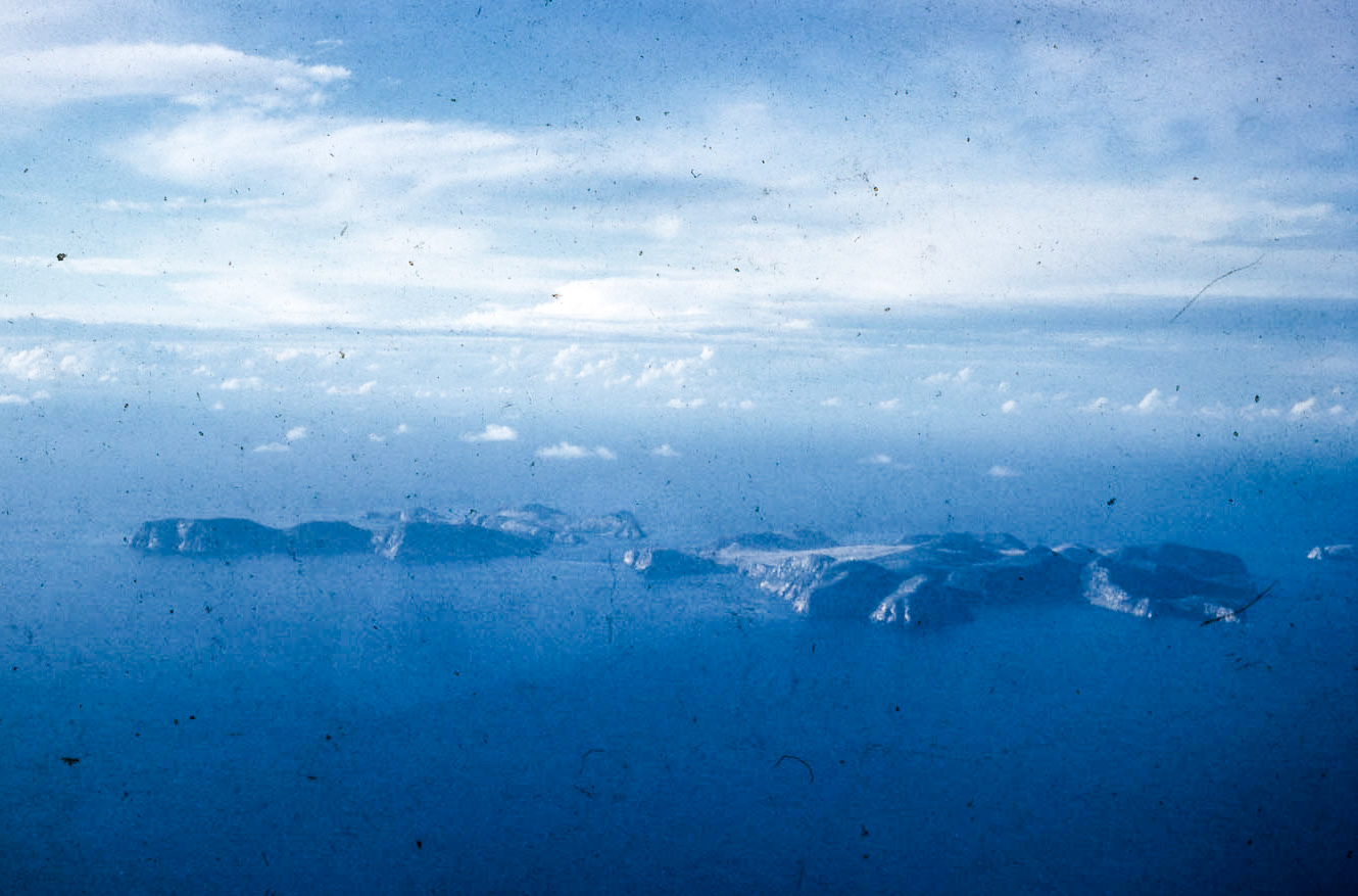 Offshore Islands, temperate Bass Strait